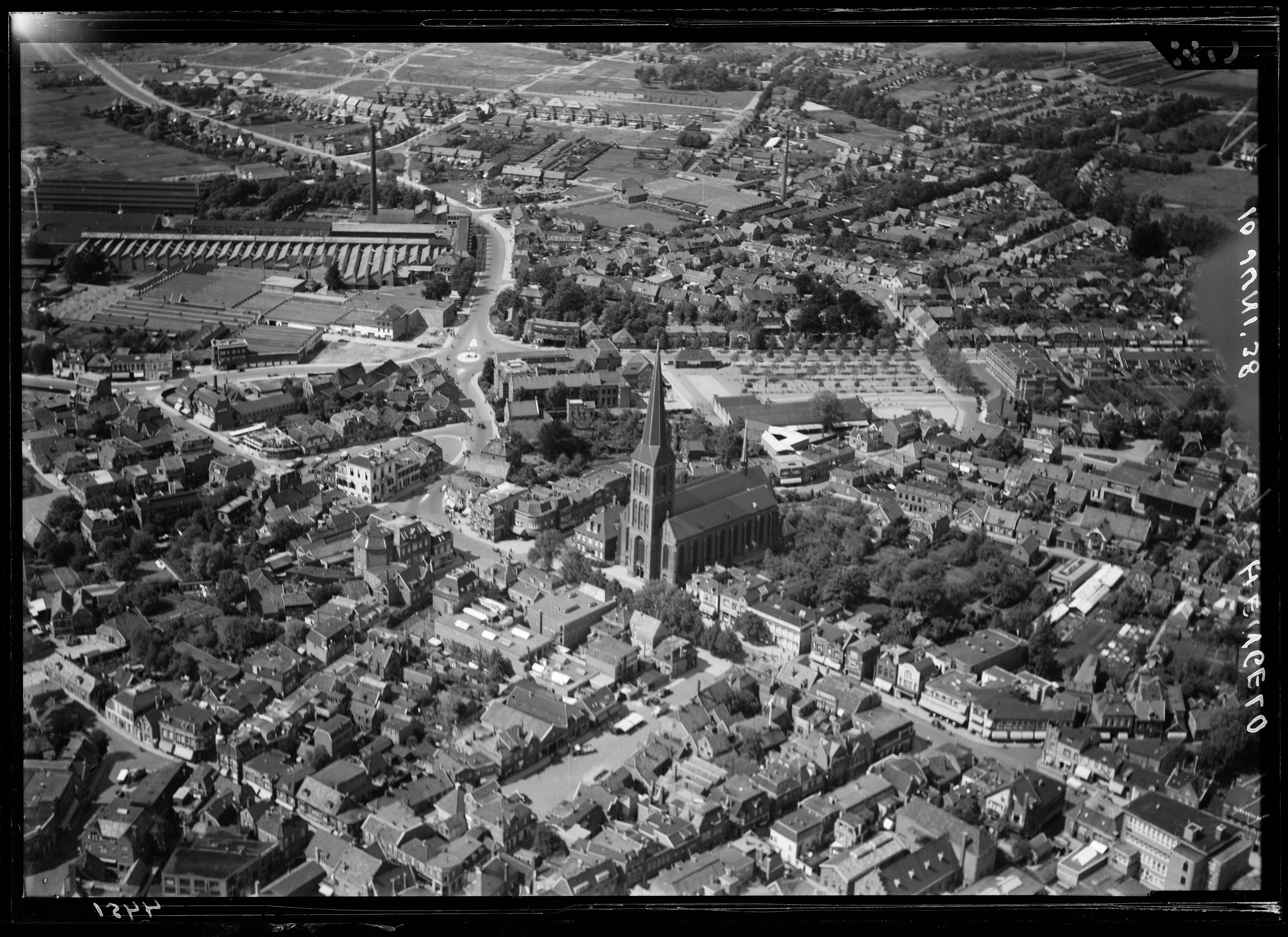 Aerial photograph of Hengelo, The Netherlands